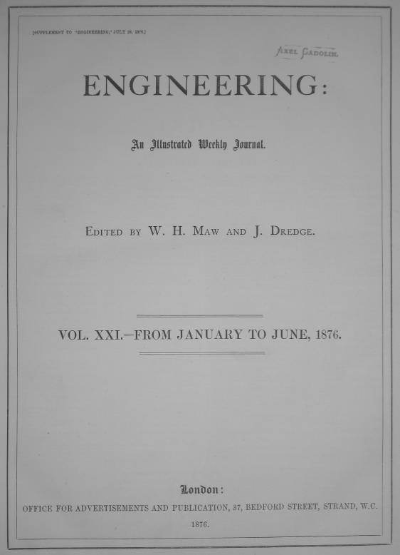 Title page of the 21st volume of Engineering magazine. "ENGINEERING An illustrated weekly journal. Edited by W. H. Maw and J. Dredge. VOL. XXI. - FROM JANUARY TO JUNE, 1876. London: Office for advertisements and publication, 37, Bedford Street, Strand, W.C. 1876."